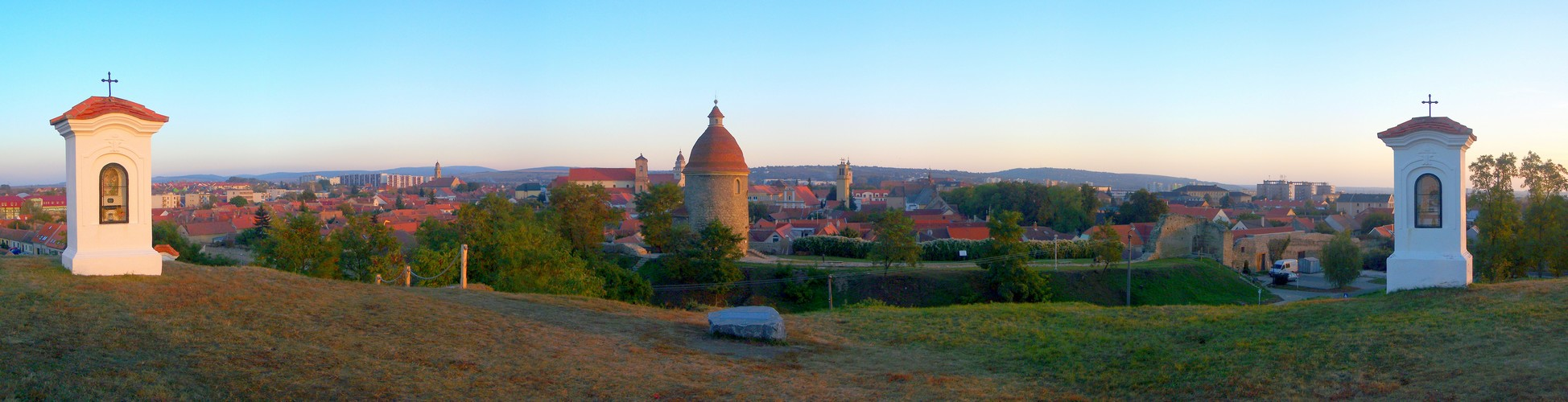 Panorama of the Slovakian city of skalica from calvary.